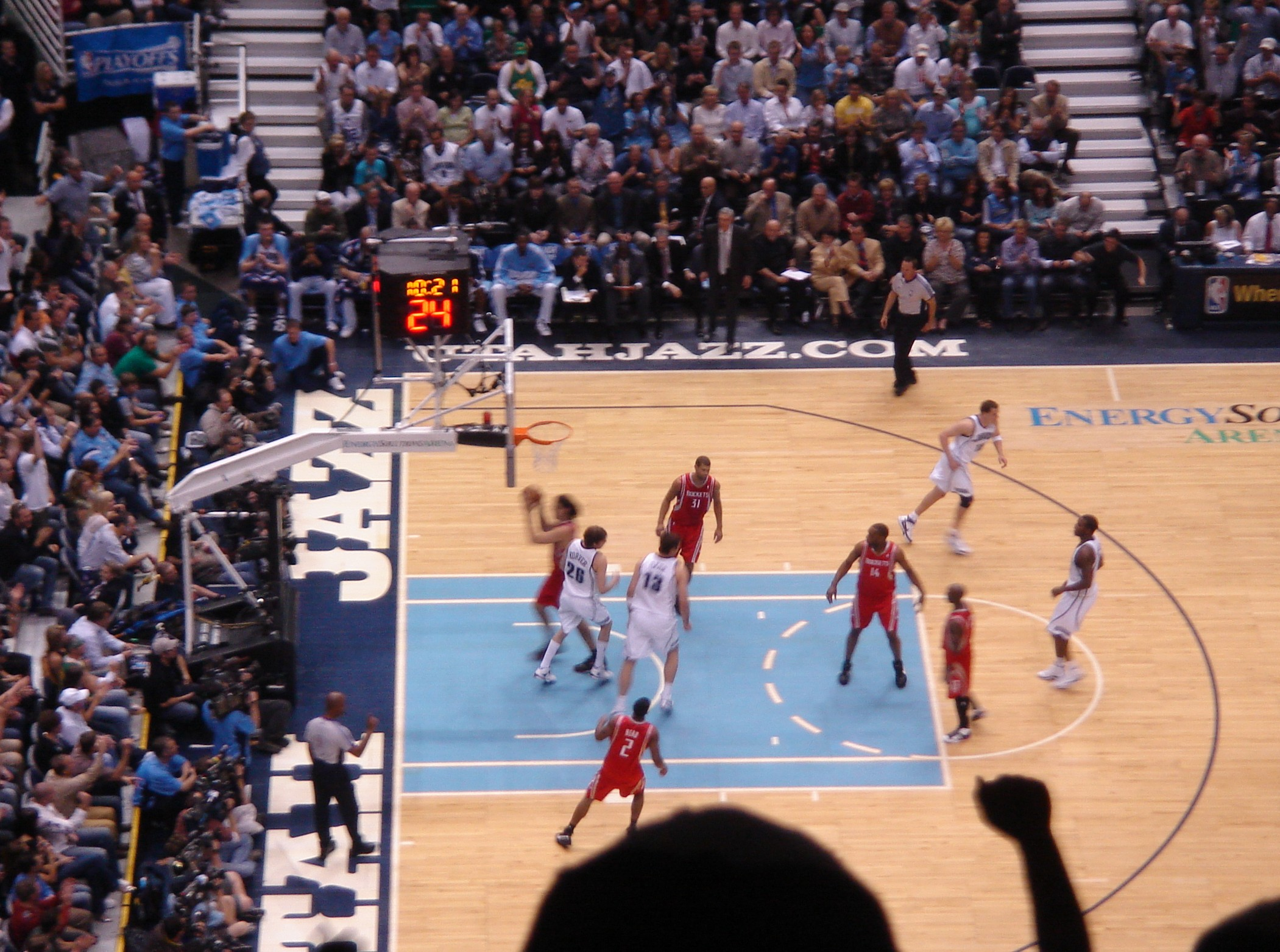 Houston Rockets and Utah Jazz playing at EnergySolutions Arena in 2008